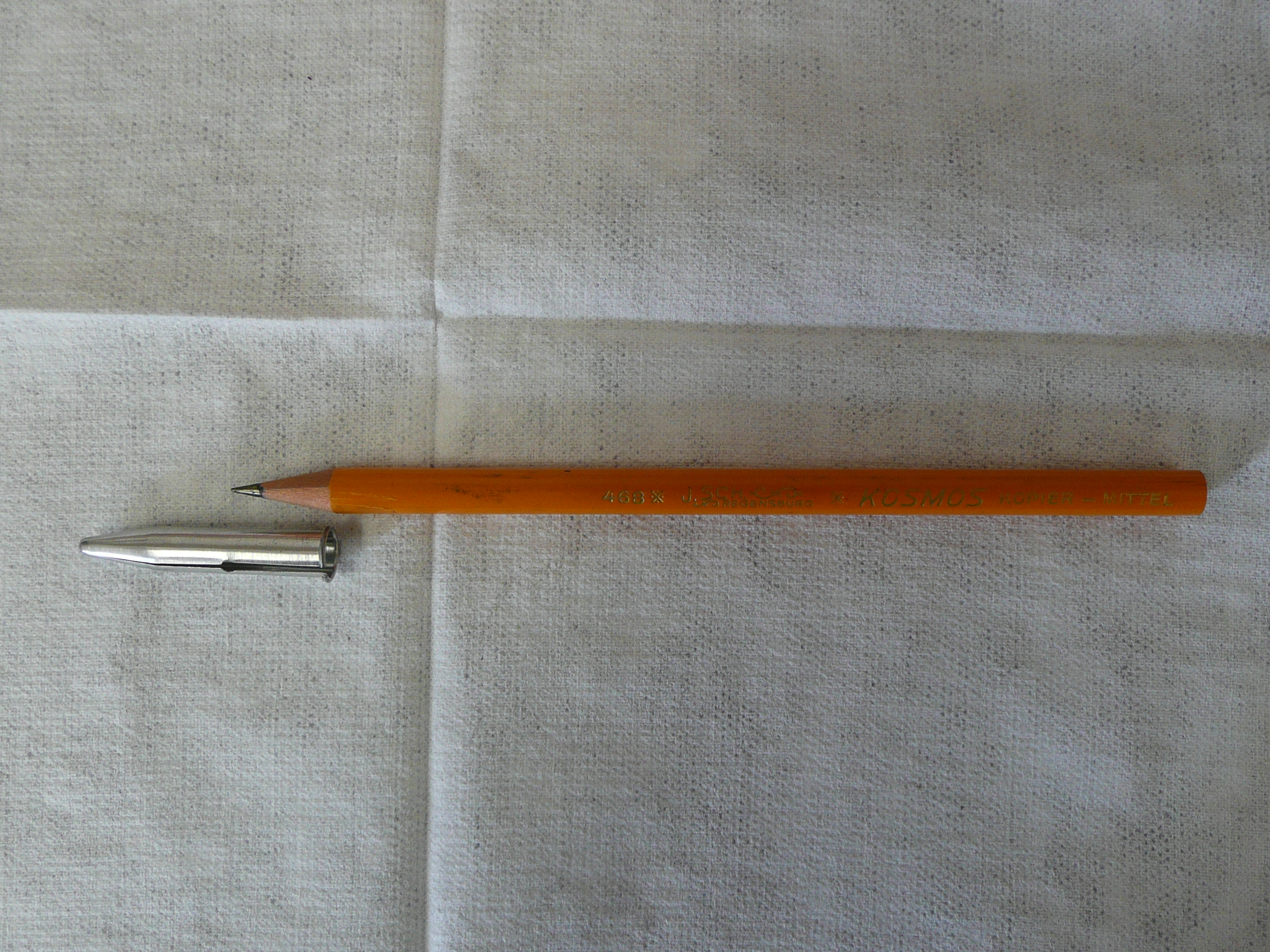 Classic copying pencil (»Kosmos«, J.Sch. Regensburg) with protection cap.